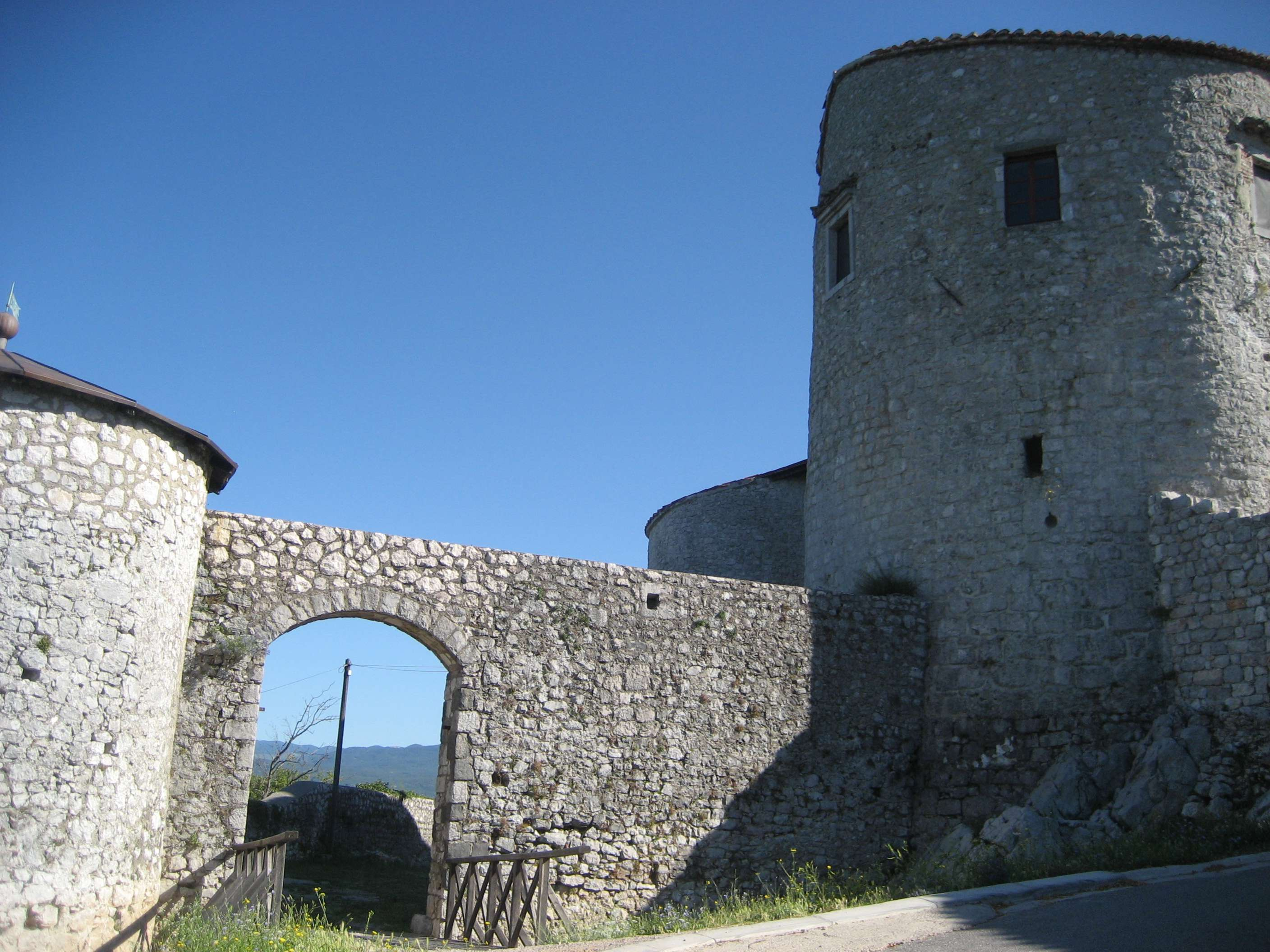 Castle Grobnik, Croatia